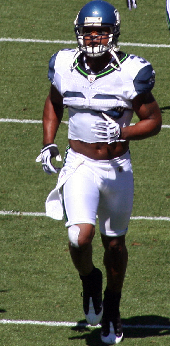 Lawyer Milloy, a player on the Seattle Seahawks American football team. The number on his jersey is 36.